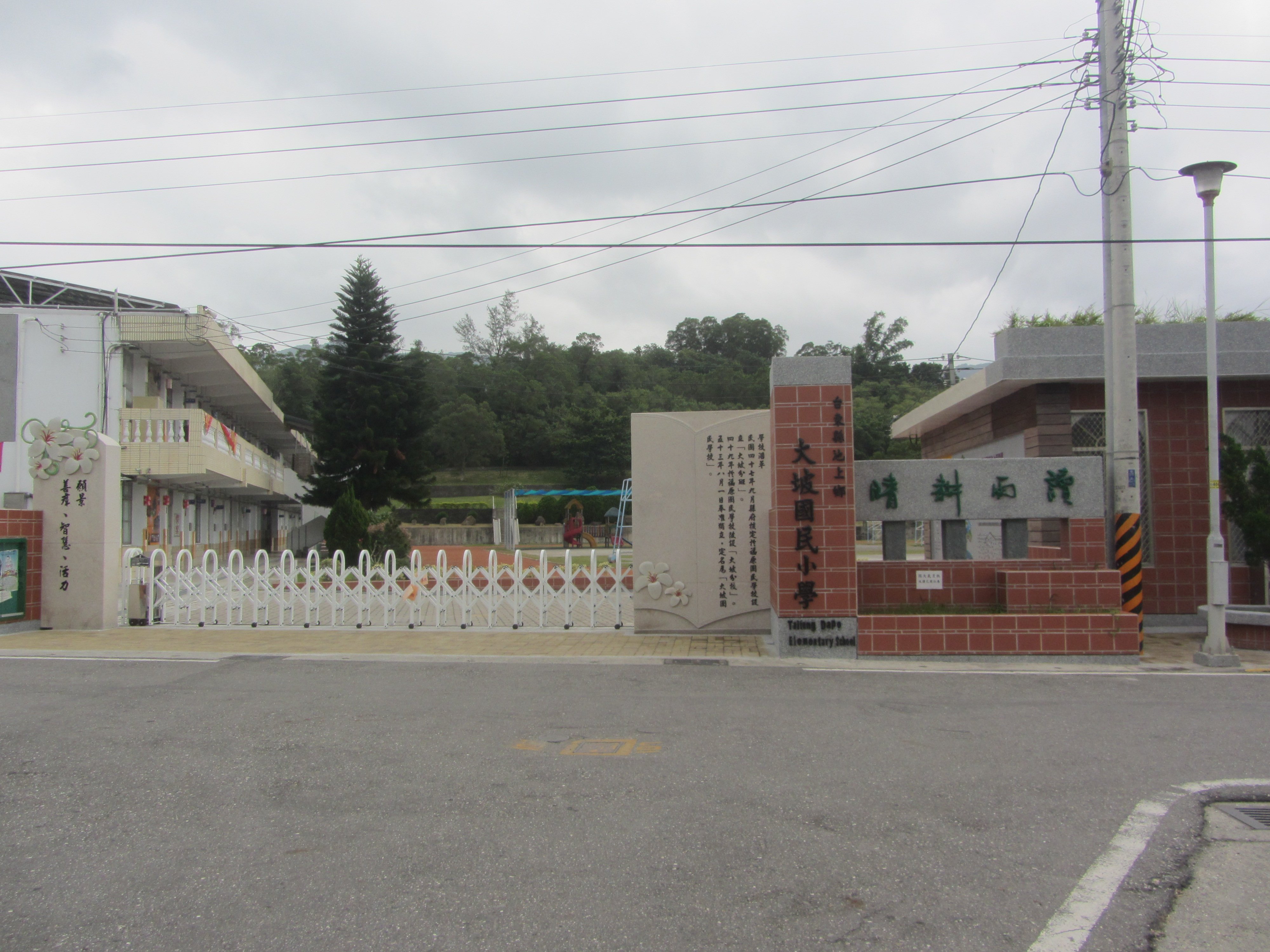 Taitung Tapo Elementary School